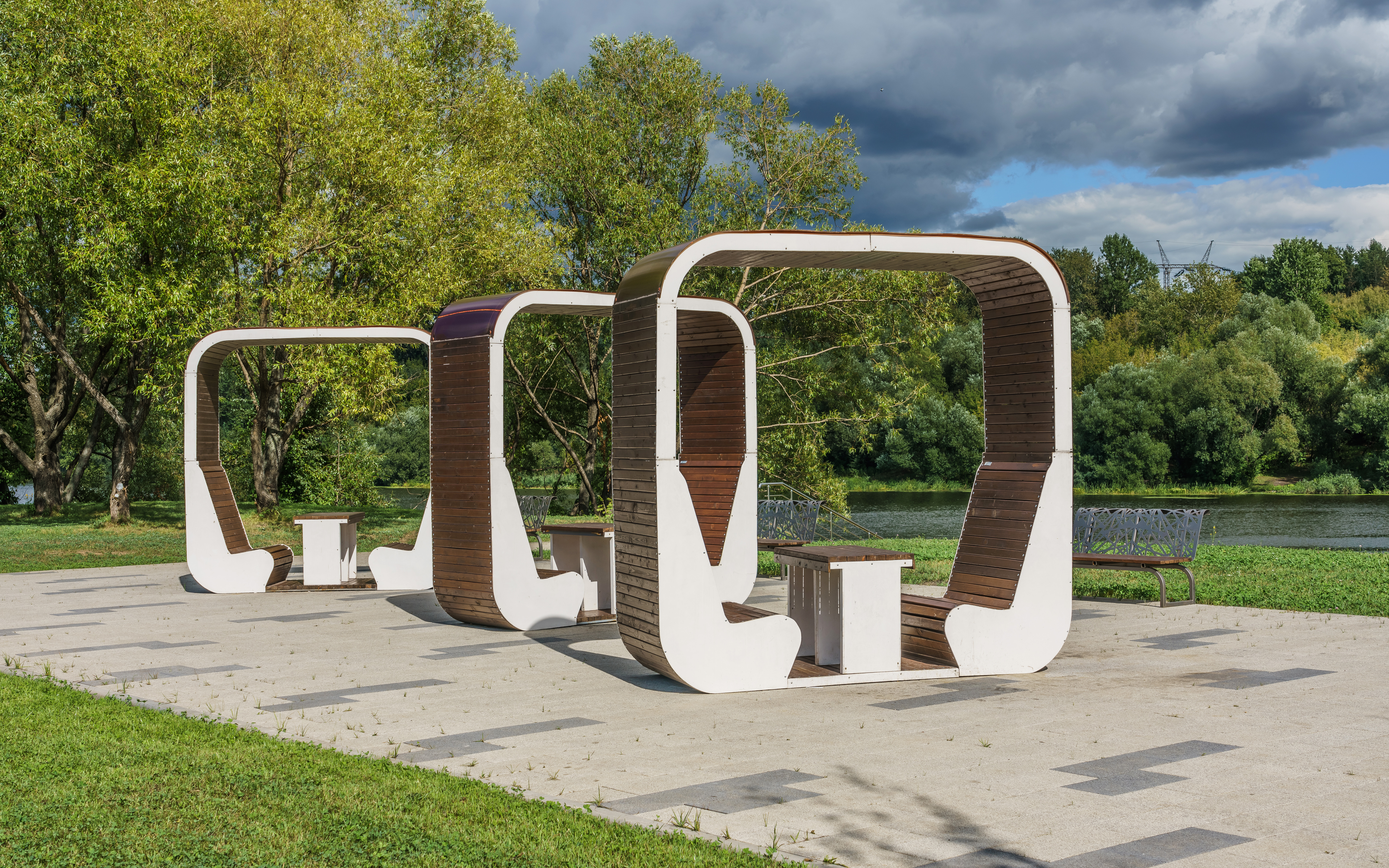 Brateyevo Floodplain Park in Moscow, Russia